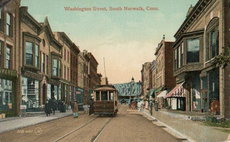 Postcard: Washington Street, South Norwalk section of Norwalk, looking west, from a postcard published about 1910. Store Web page states: "C1910 PC TROLLEY CAR SOUTH NORWALK WASHINGTON ST"; also states "Woolworths on left."